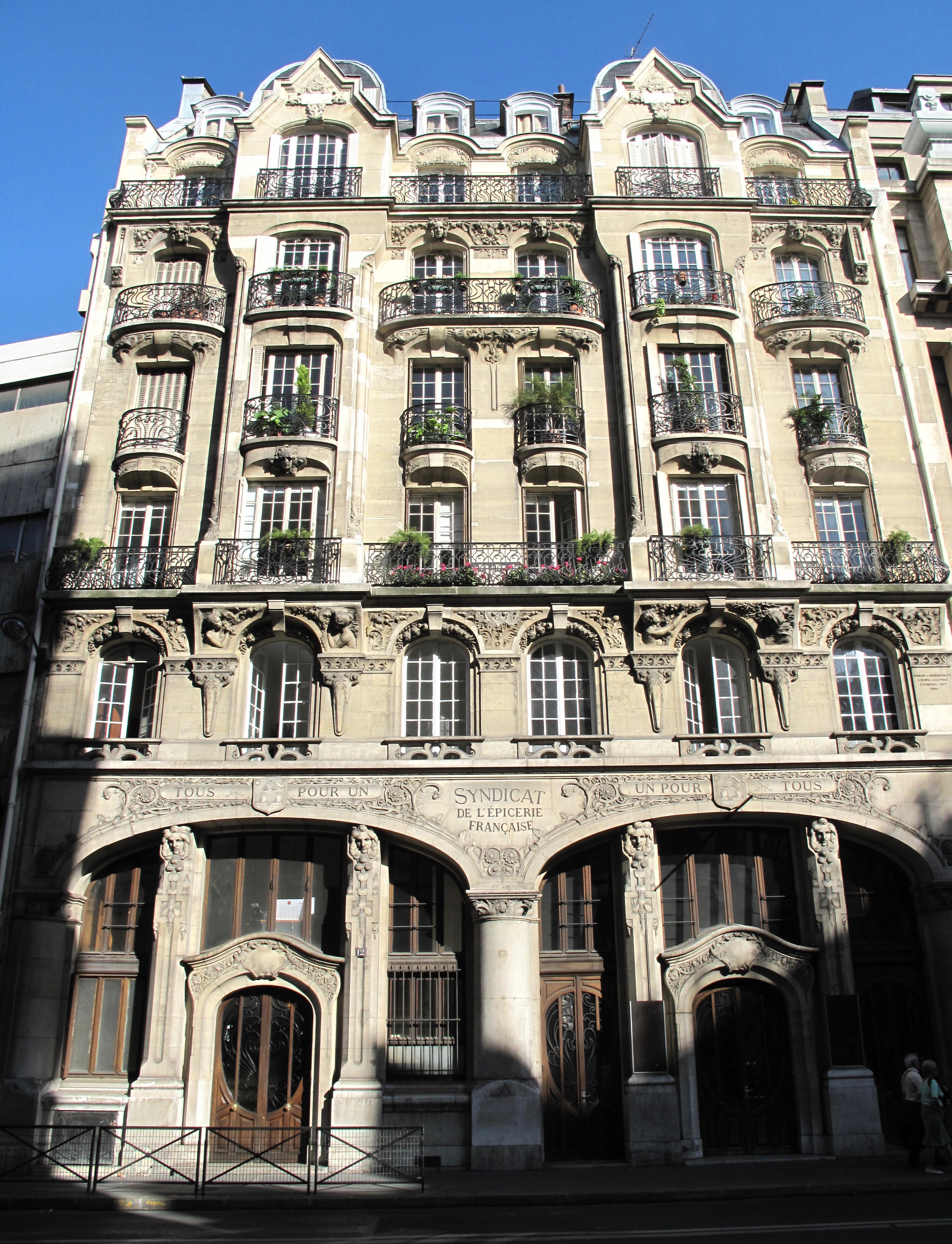 Former building of the trade union of the french grocery : 12 rue de Renard, Paris 4th arr.